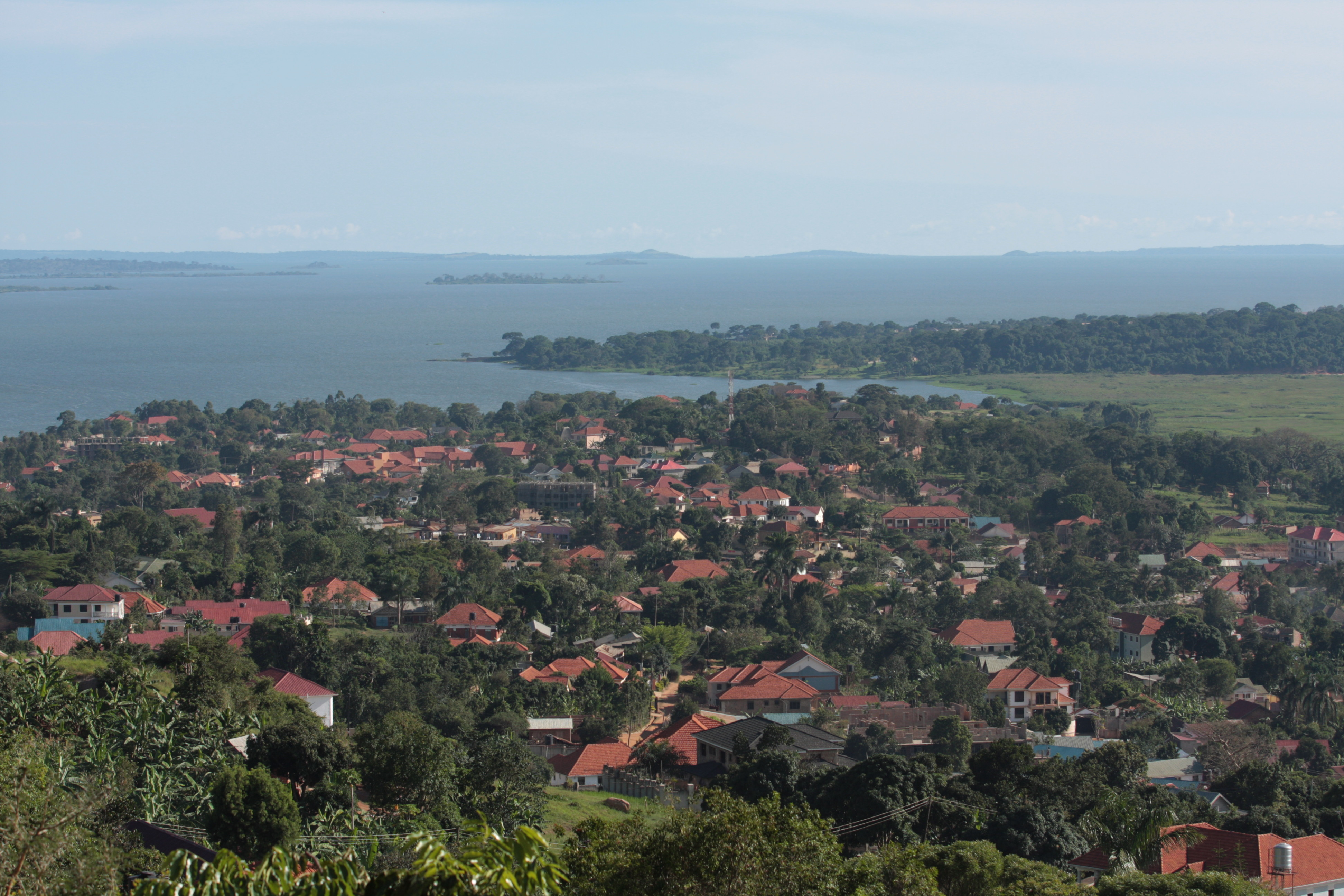 Munyonyo is an area on the northern shores of Lake Victoria and is part of the metropolitan area of the city of Kampala, in Makindye Division. Kampala is the largest city and capital of Uganda.